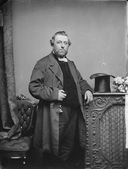 1 negative : glass, wet collodion, b&w ; 21.5 x 16.5 cm.